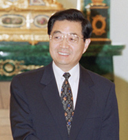 THE KREMLIN, MOSCOW. President Putin with Chinese Vice President Hu Jintao.